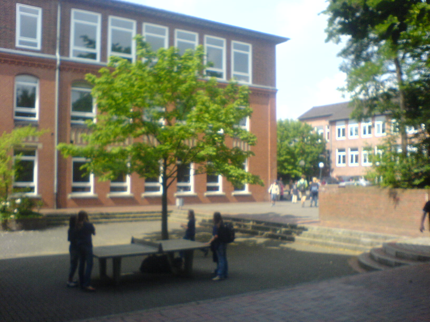 School yard